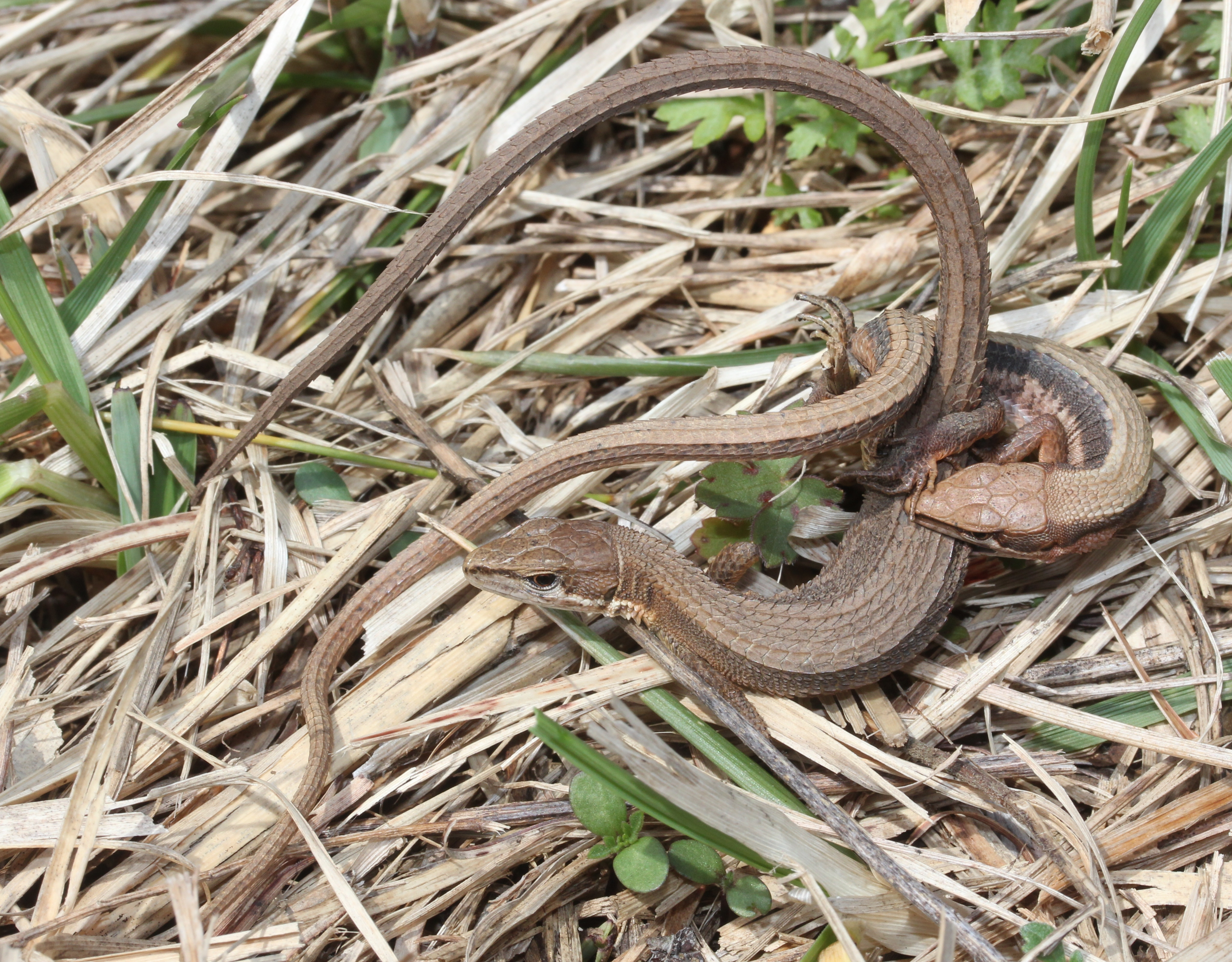 Takydromus tachydromoides mating, in Maibara, Shiga prefecture, Japan.